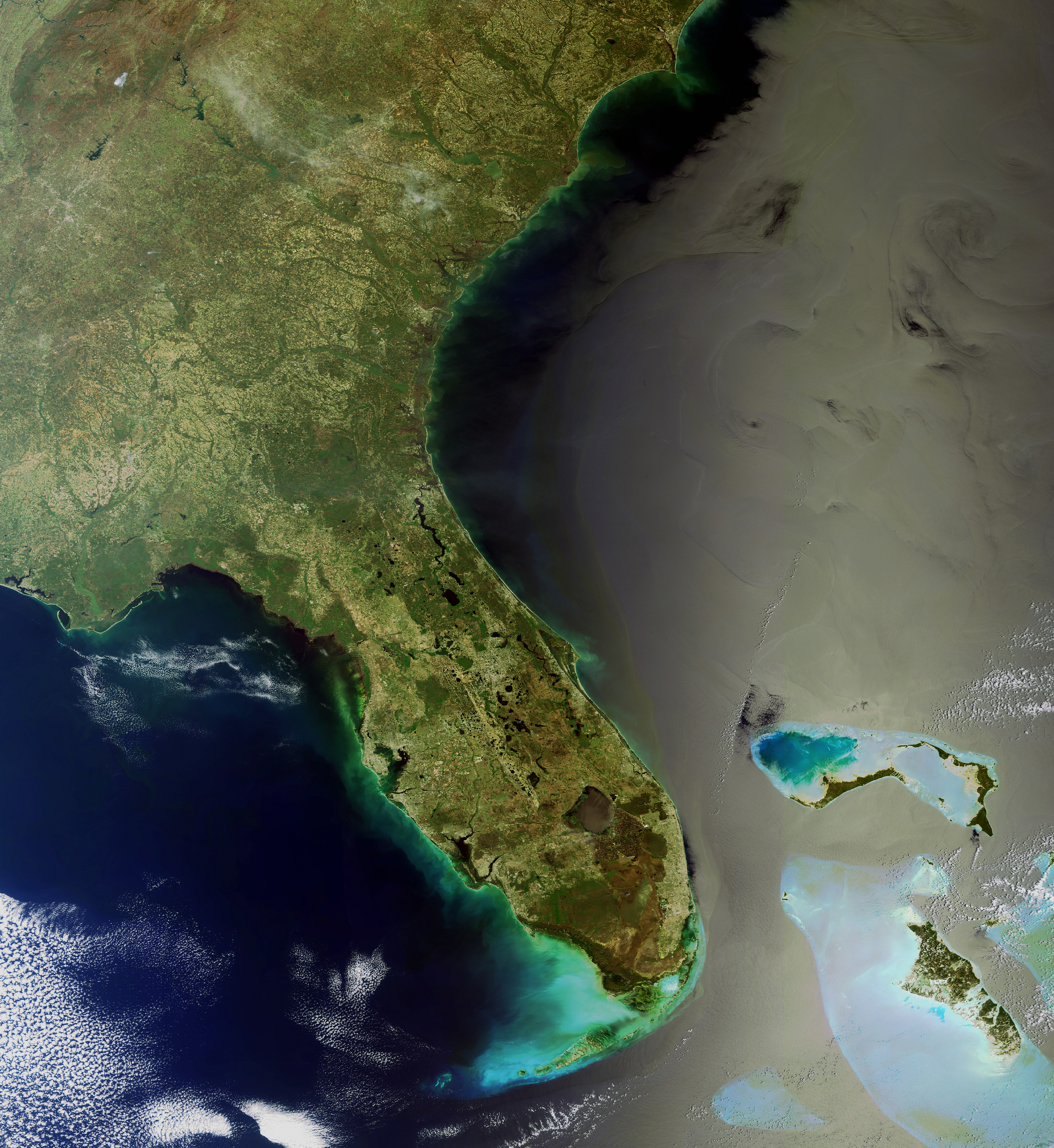 This Envisat image shows the Straits of Florida, the area where the Loop Current flows eastward out of the Gulf of Mexico (visible west of Florida) before joining the Gulf Stream and flowing along the eastern coastlines of the US and Newfoundland. This image was acquired by Envisat’s Medium Resolution Imaging Spectrometer (MERIS) on 1 April 2010 at a resolution of 300 m.